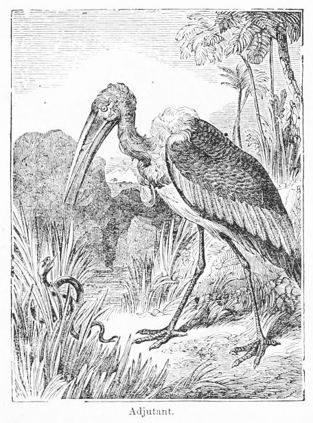 An adjutant stork, Leptoptilos dubius